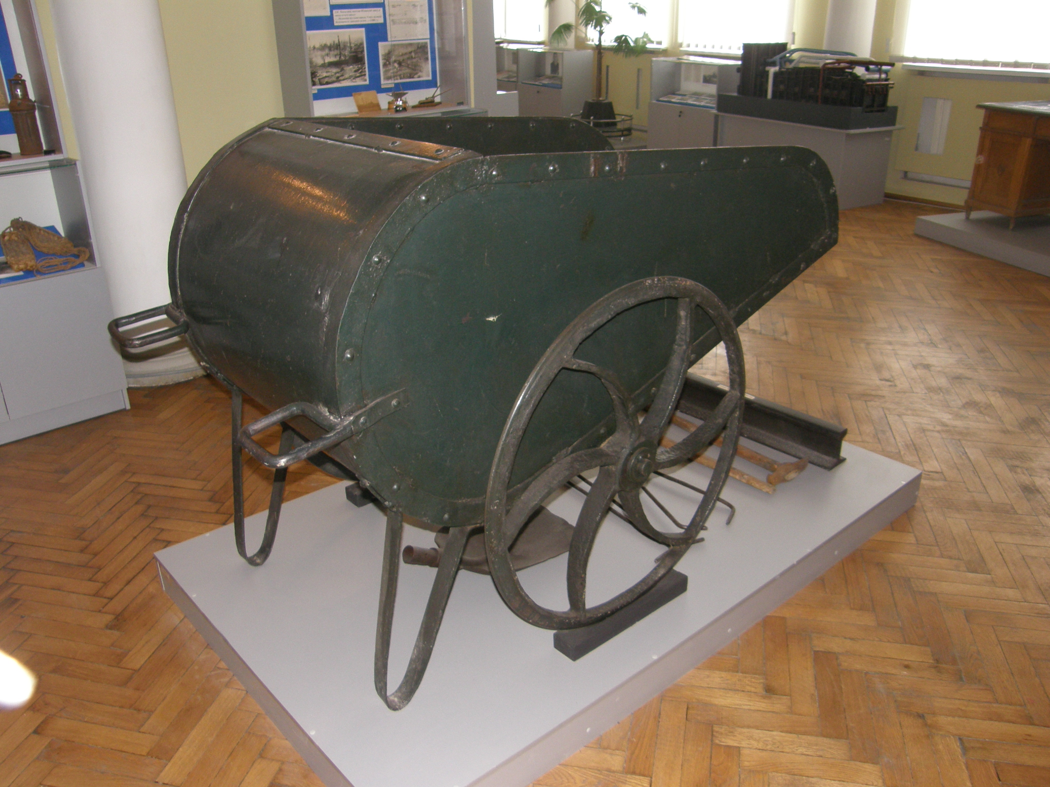 Museum of History of Donetsk metallurgical plant, Wheelbarrow for coal or Coke (fuel)